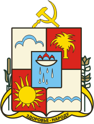 Sochi (Krasnodar kray), coat of arms (1967)